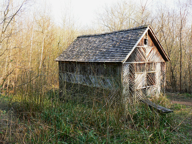 Building in Ravensroost Wood The building is presumably meant as temporary shelter only as there are no amenities inside it.